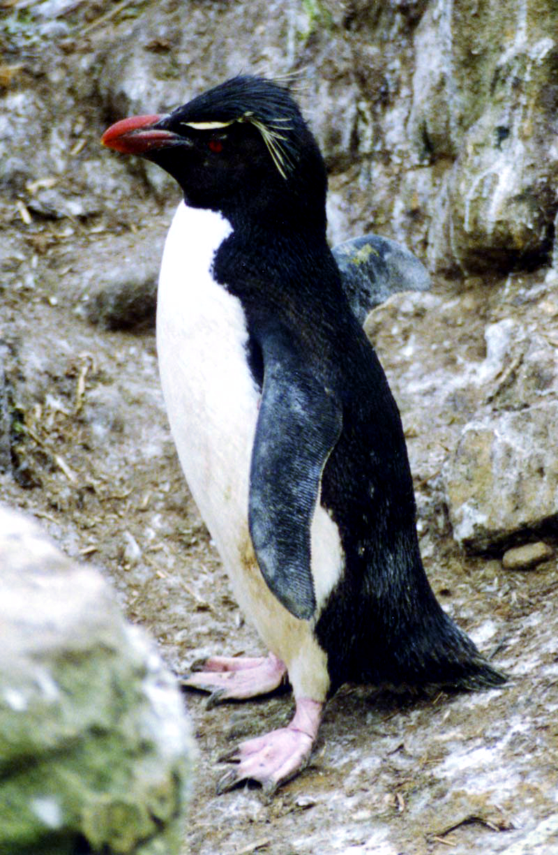 Photo of Eudyptes chrysocome (rockhopper penguin), New Island, Falkland Islands